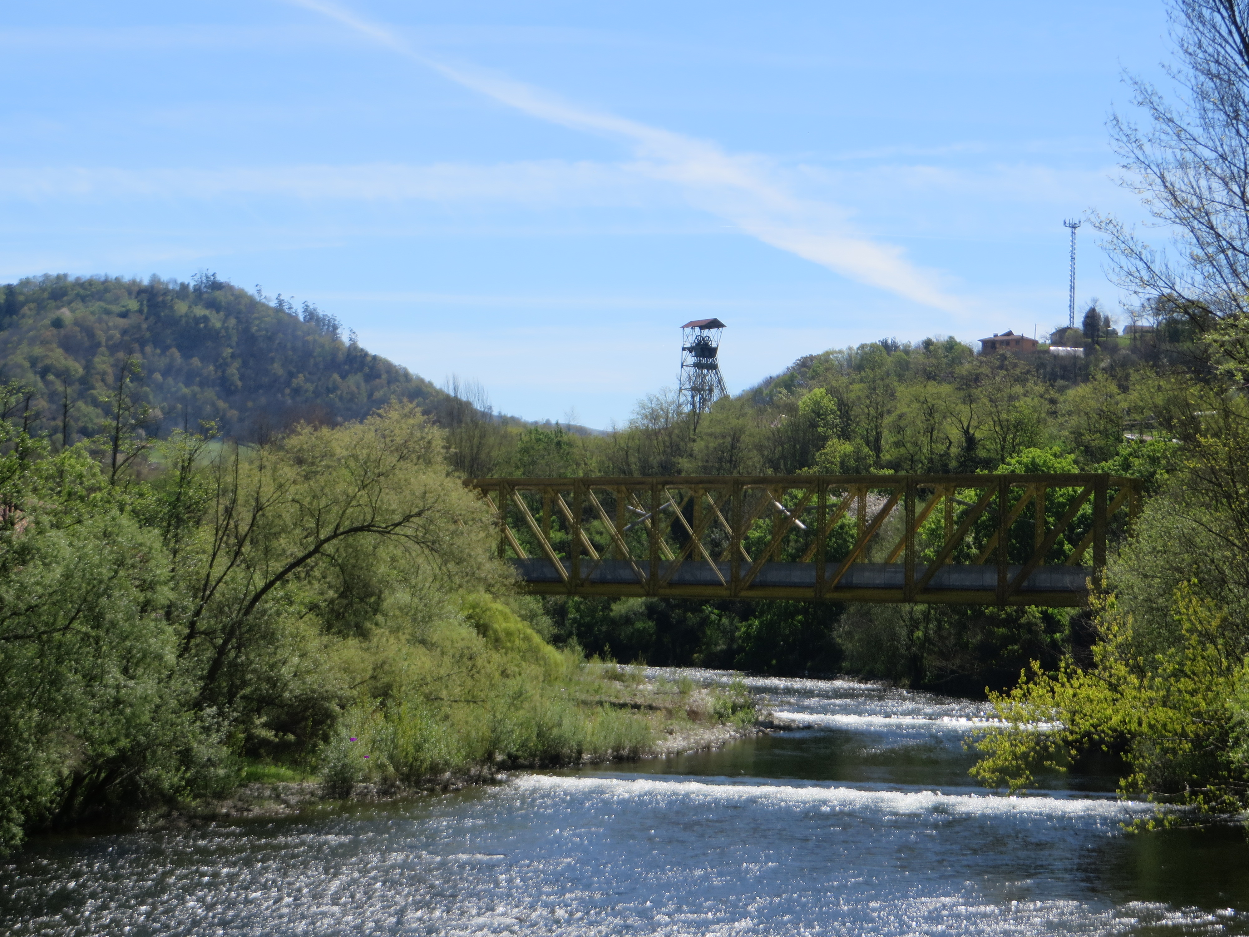 Puente sobre el río Nalón en Sotrondio. Al fondo el Pozo San Mamés.